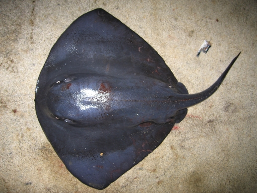 Pelagic stingray, Dasyatis violacea